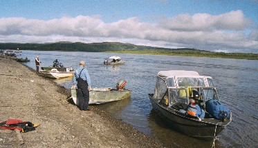 This is a picture of the Kuskokwim river shore at Aniak, Alaska I shot in September of 2001